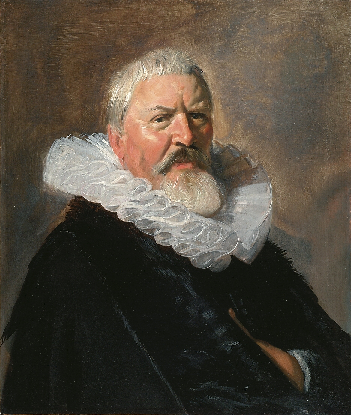 Portrait of Pieter Jacobsz Olycan at bust length